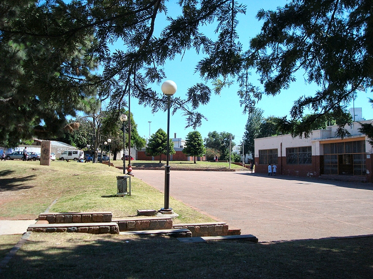 Parque José Pedro Bellán, Belvedere, Montevideo, Uruguay.